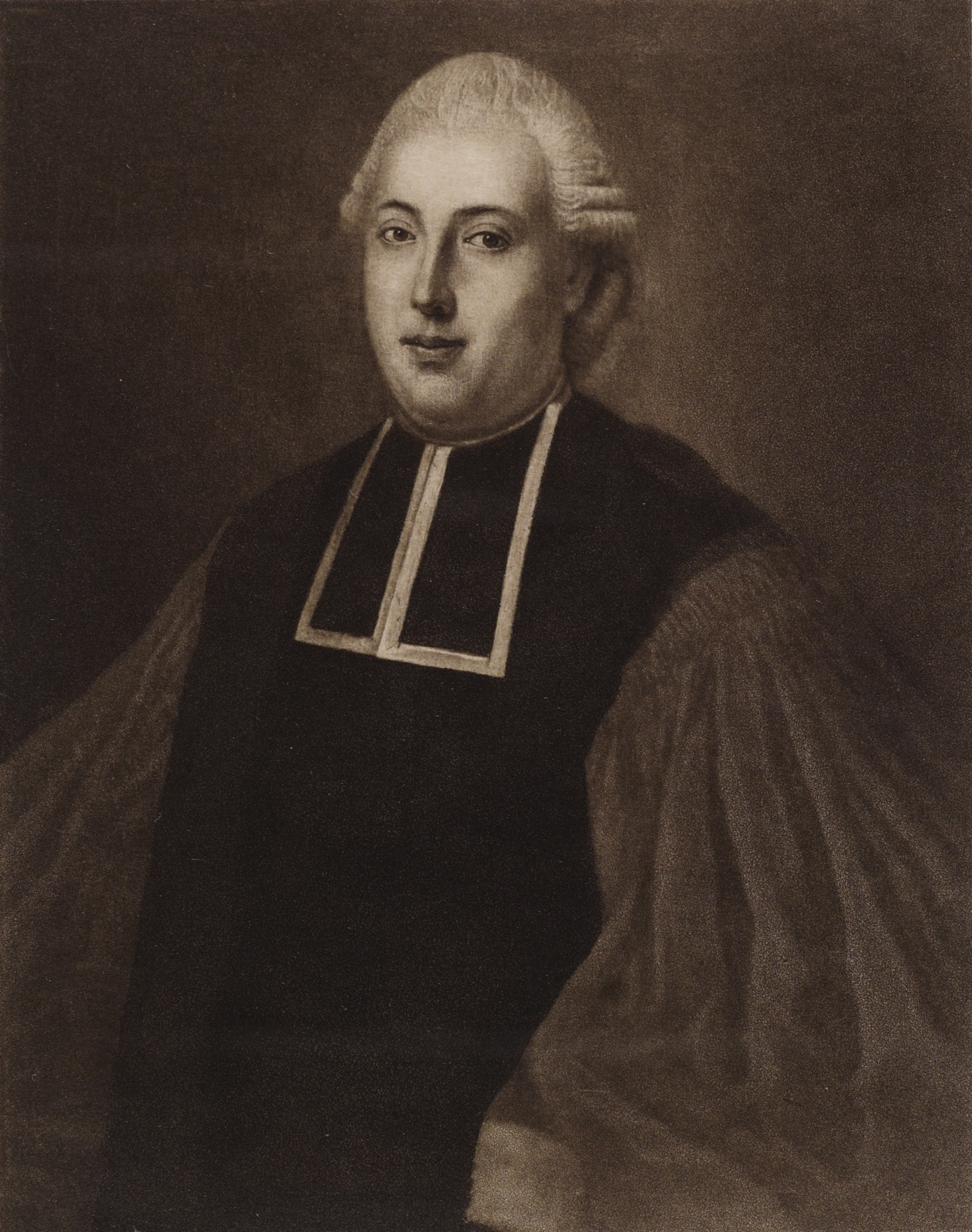 Portrait of Alexandre de BOYES, Marquis d'Equille Portrait of Alexander de Boyes, large man with black and white long color, and flowing sleeves